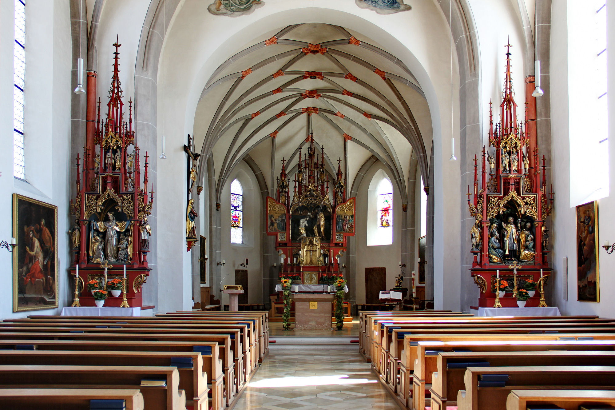 Church of St. John the Baptist Native nameSt. Johannes BaptistLocationZolling, Upper Bavaria, GermanyCoordinates48° 26′ 59.28″ N, 11° 46′ 15.24″ E Authority control : Q2319336 institution QS:P195,Q2319336